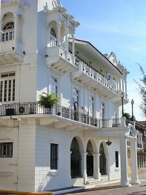 Heron's Palace